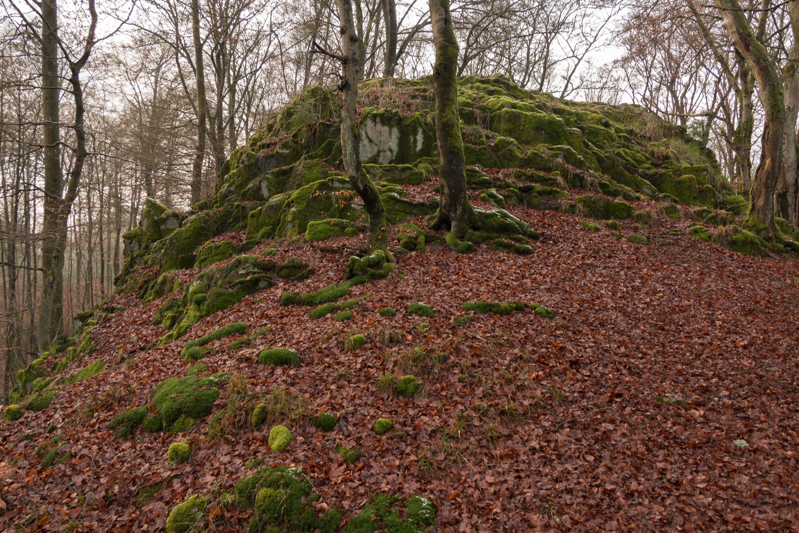 The Seitenstein basalt formation close to Hellenhahn-Schellenberg